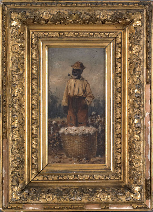 Oil on board painting of an African American standing behind a bushel of cotton by William Aiken Walker